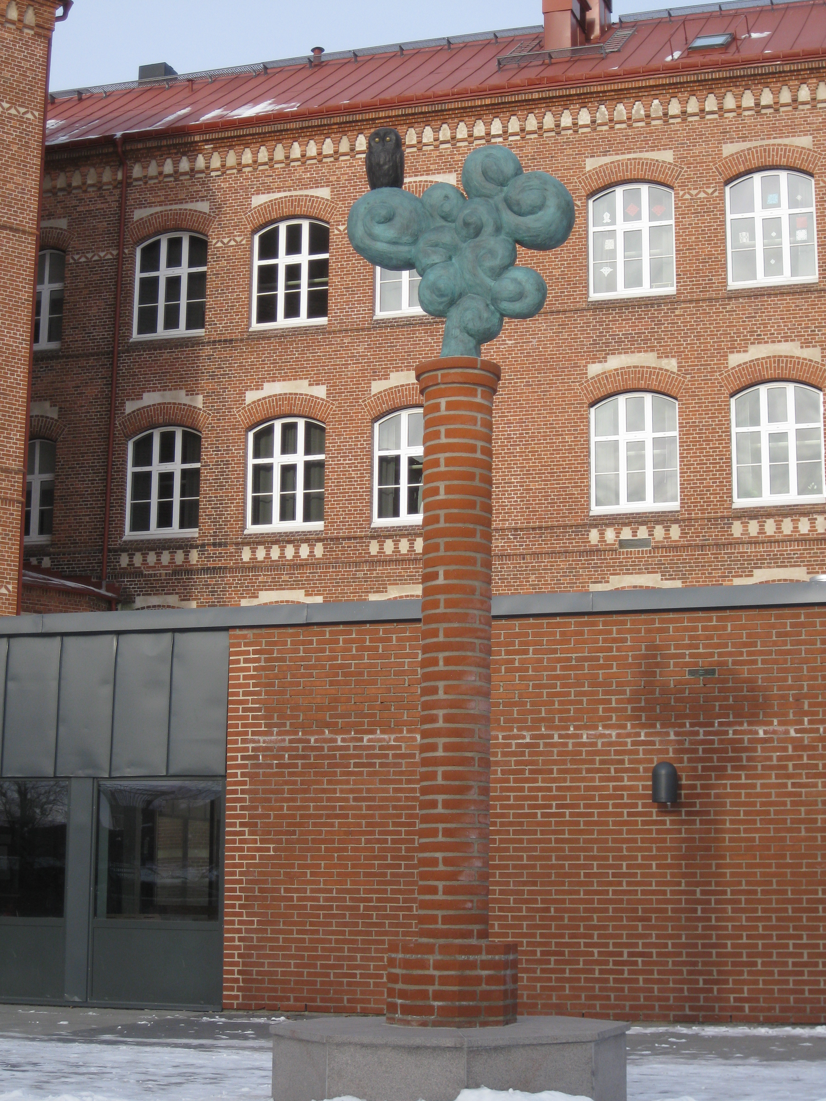 Kunskapsfabriken ("The Knowledge Factory"), sculpture at Brunnsåkerskolan in Halmstad, Sweden.